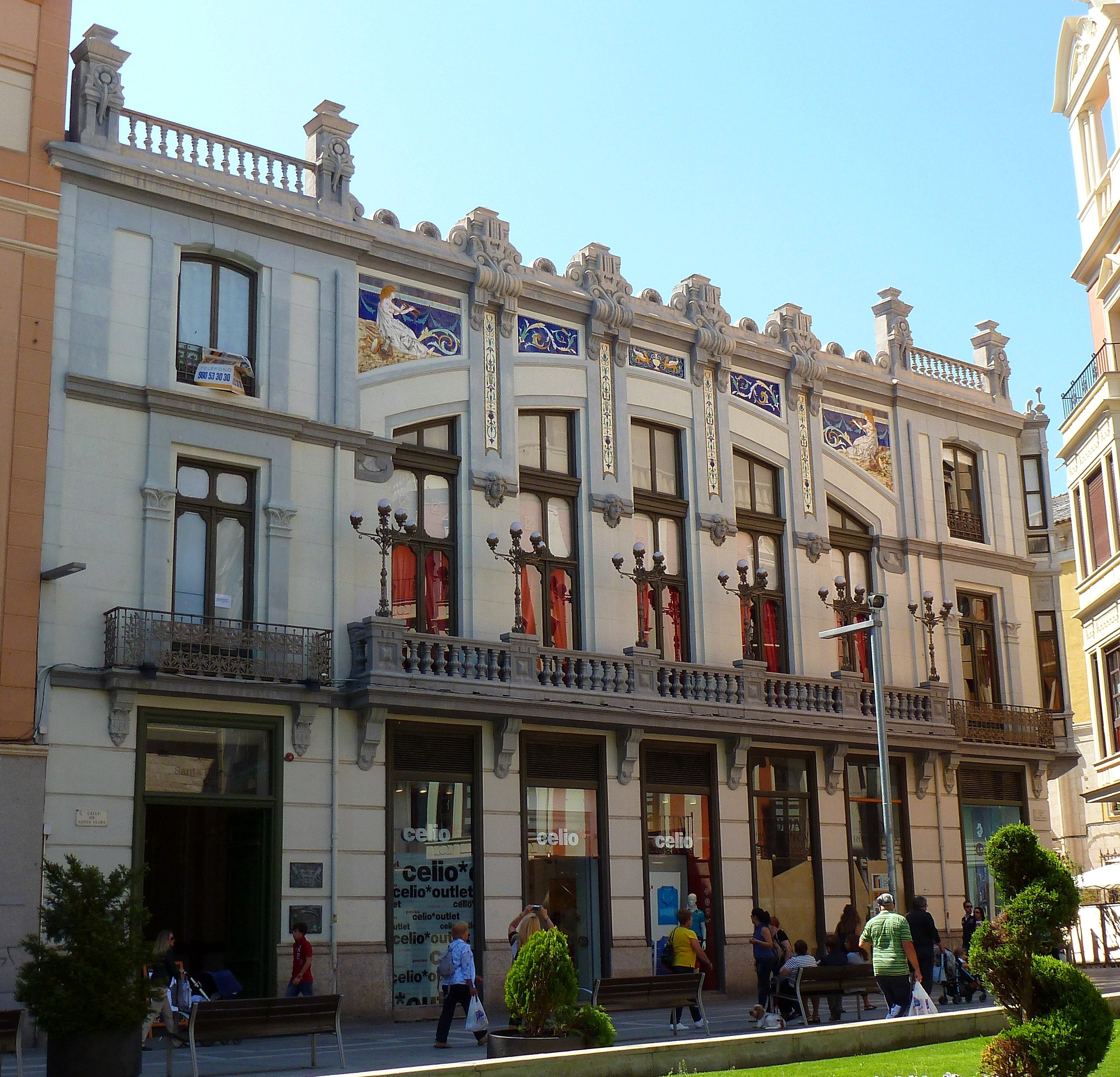 Casino of Zamora, Spain.